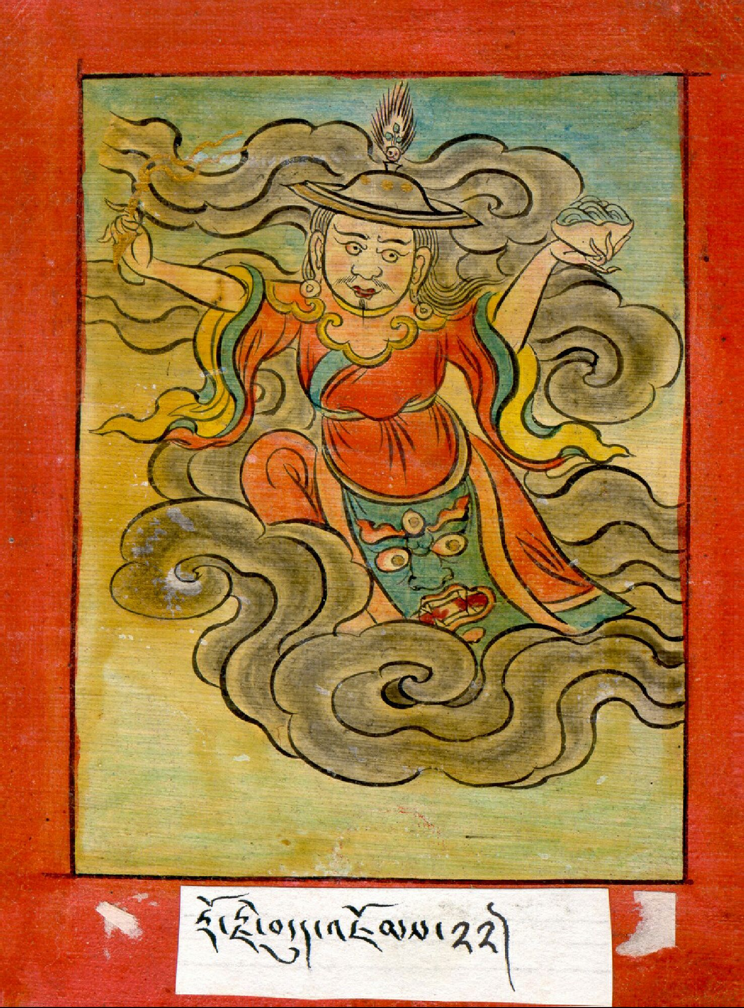 Dorje Dudjom, 8th Century Tibetan Translator